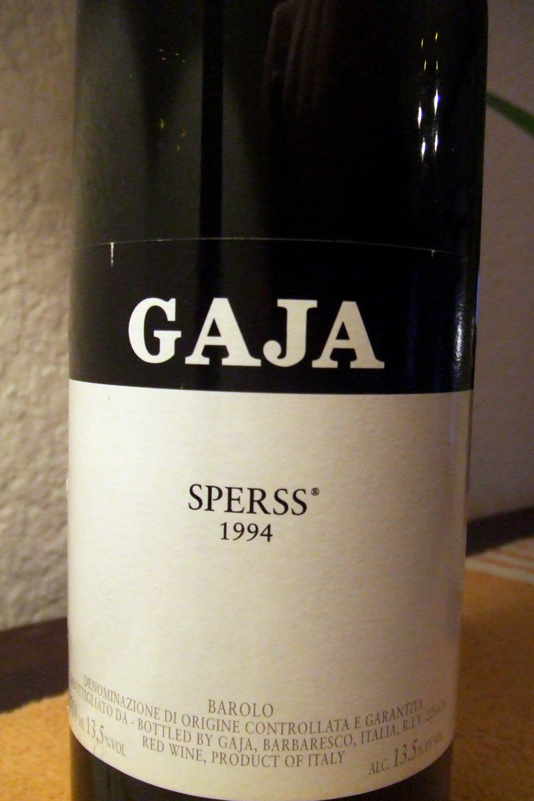 Italian Barolo wine made from the Nebbiolo grape in the Piedmont region